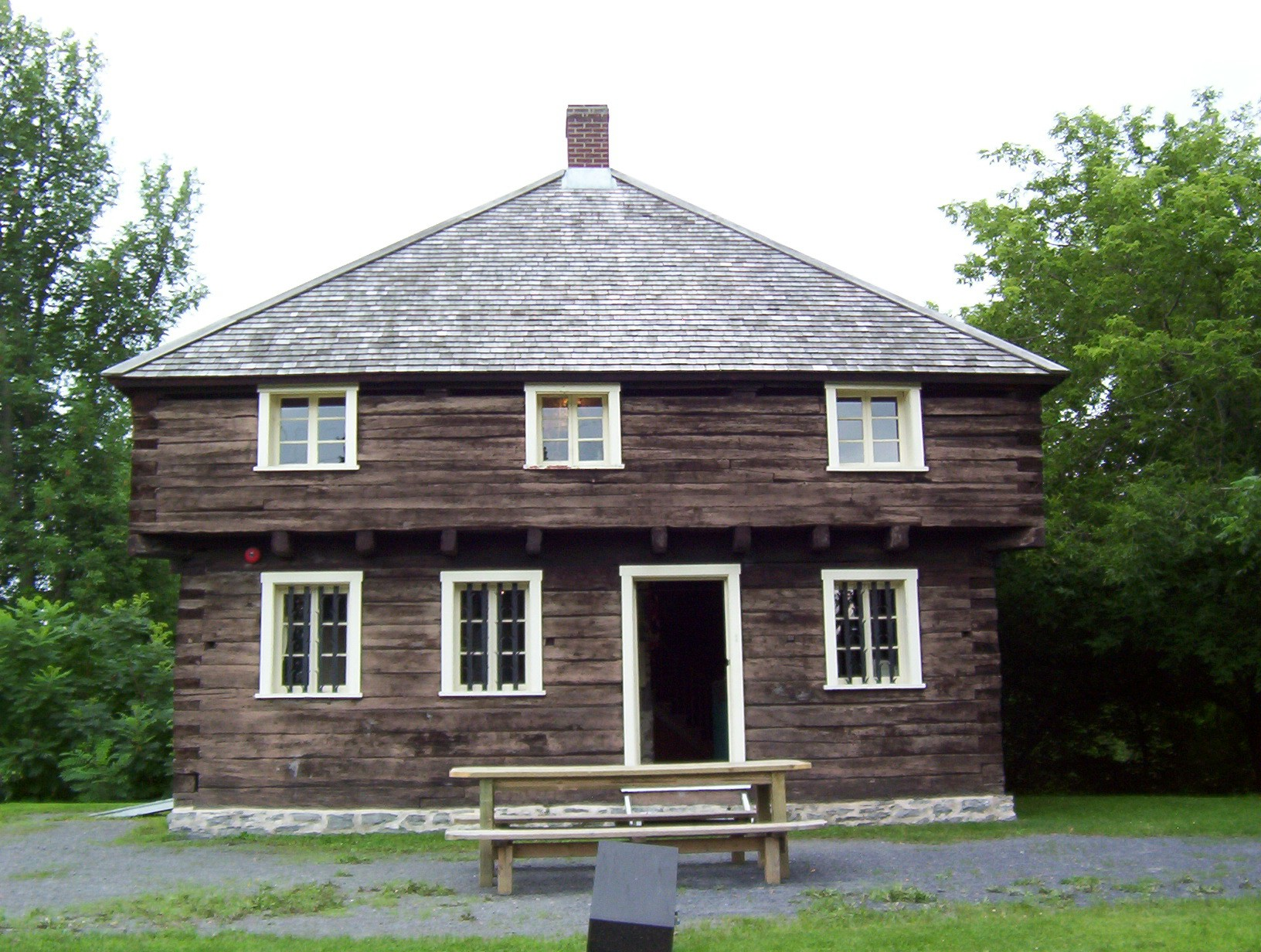 Lacolle Mills Blockhouse at Lacolle Mills I created this image myself